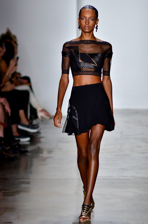 Model Jasmine Tookes in the Ohne Titel Spring/Summer 2014 fashion show on September 9, 2013 at New York Fashion Week. Photo by Christopher Macsurak.